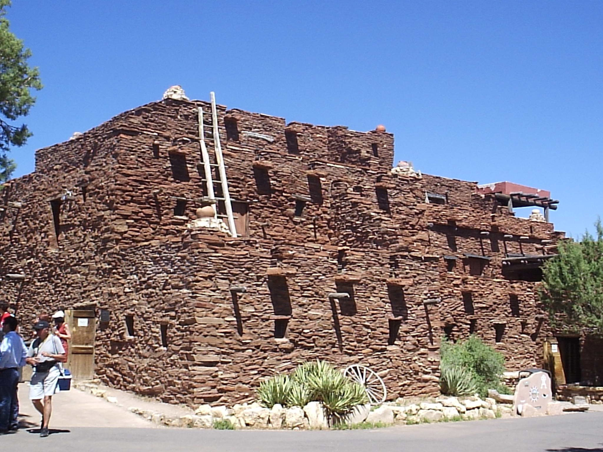 Hopi House in June of 2006. Picture taken by me, Nanosauromo. (Patrick Francis)